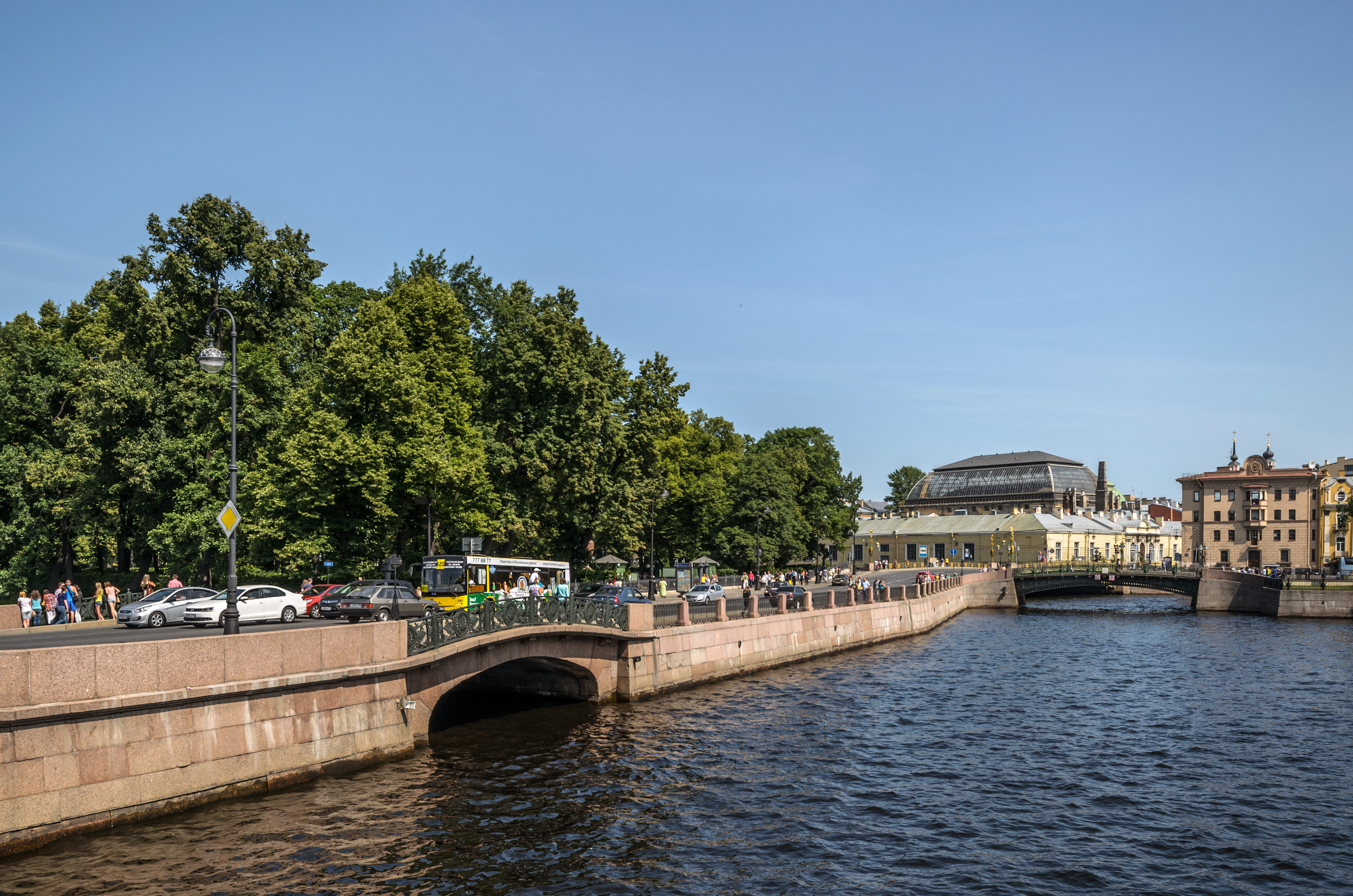 Moyka River Embankment near Summer Garden in Saint Petersburg